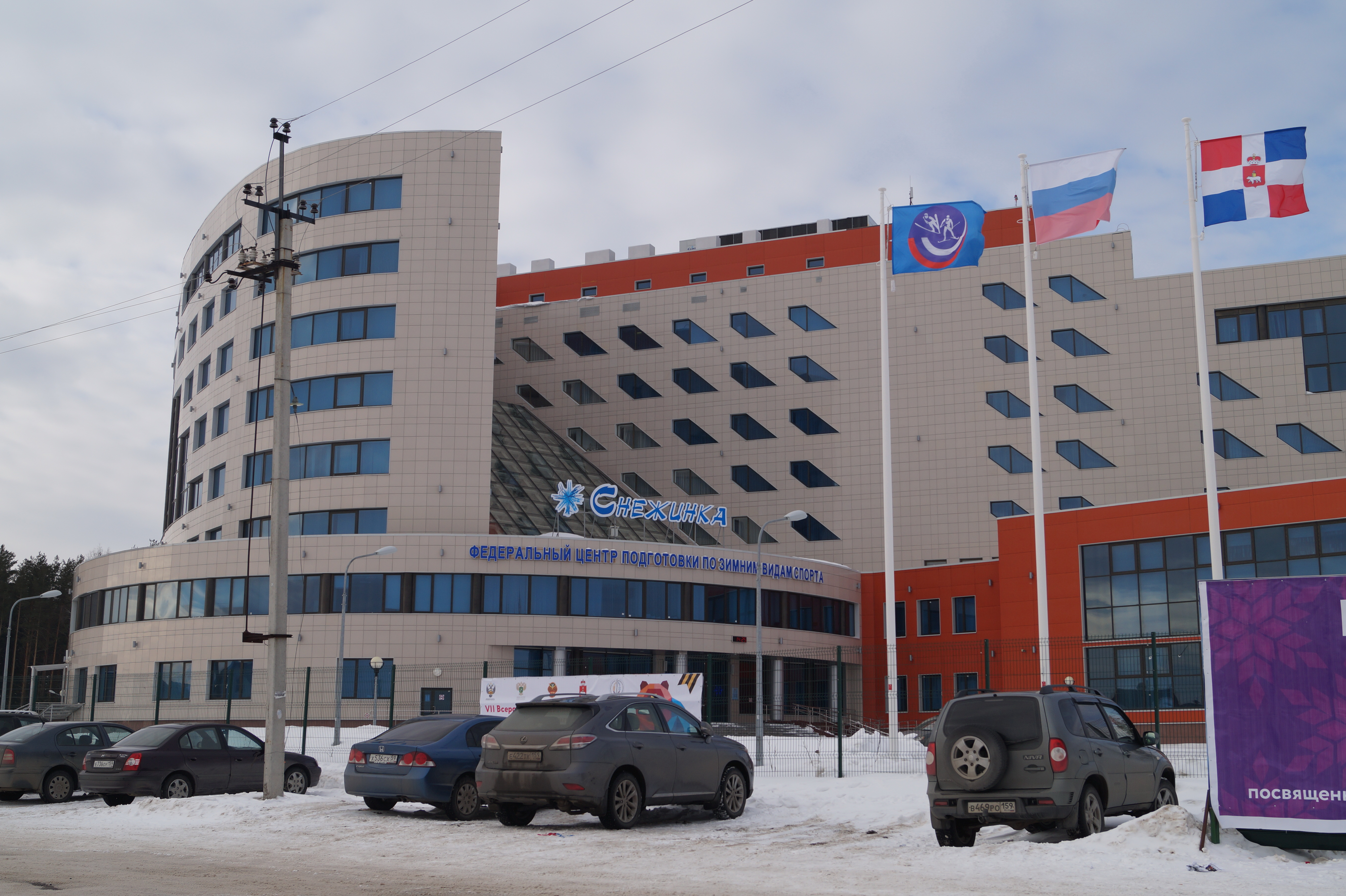 Snezhinka Ski Center, Chaikovsky, Russia